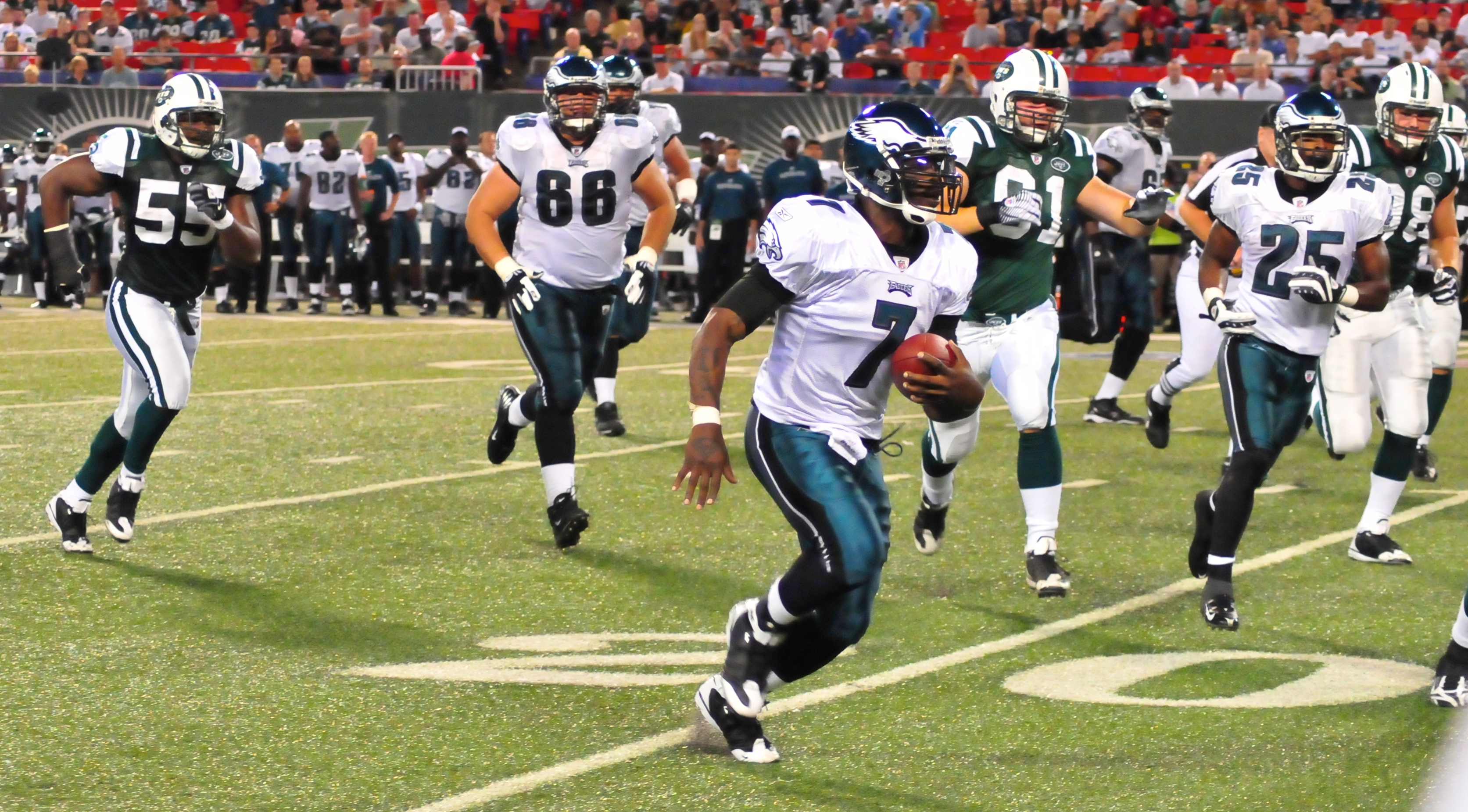 Michael Vick of the Philadelphia Eagles running with the ball against the New York Jets. Also in the picture: Jamaal Westerman (55), Dallas Reynolds (66), Sioun Pouha (91), Lorenzo Booker (25).